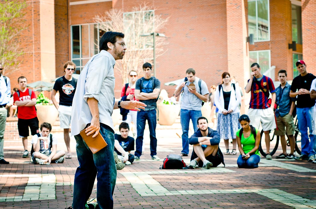 "Taking God's Truth to Their Turf"